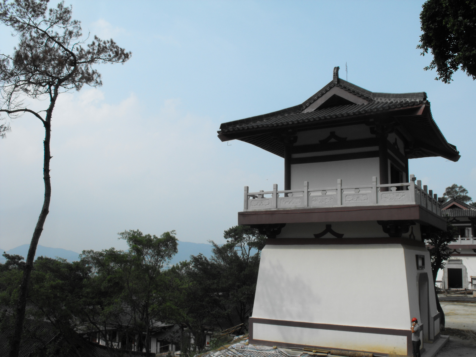 Bell Tower and Drum Tower in Guanyin Temple.